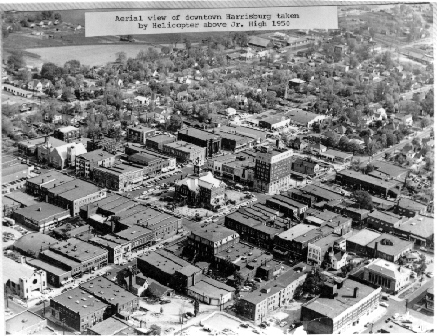 Areal shot of Harrisburg above junior high, taken by government in 1950